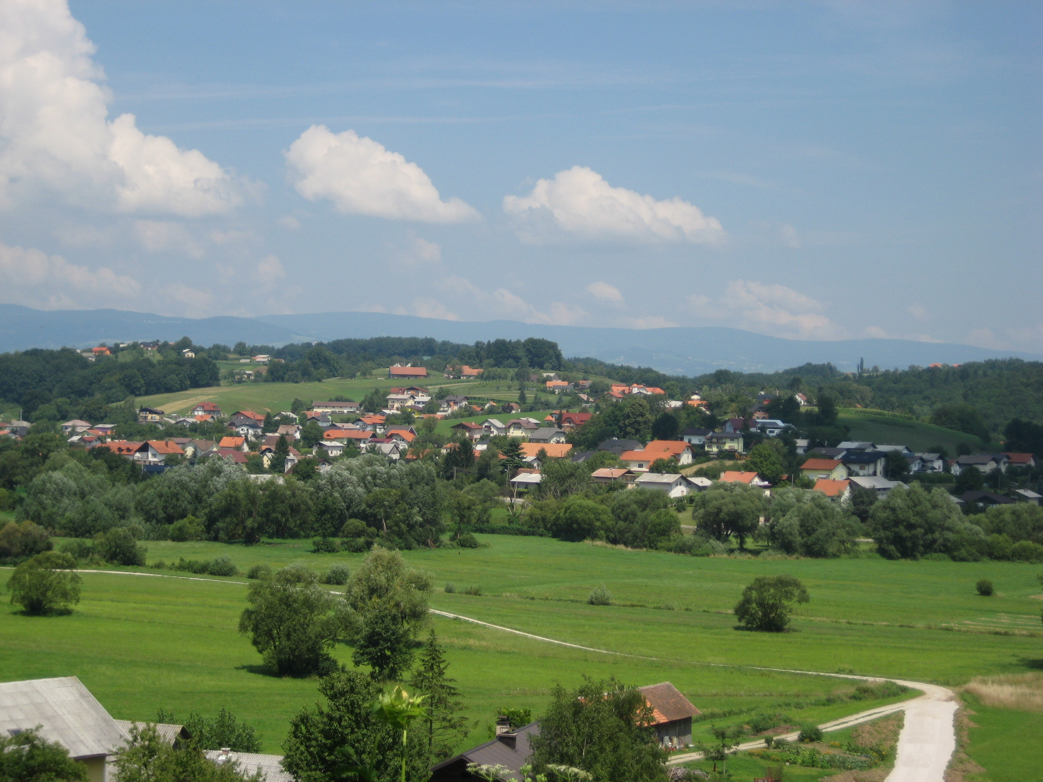 Spodnje Poljčane, village in Slovenia